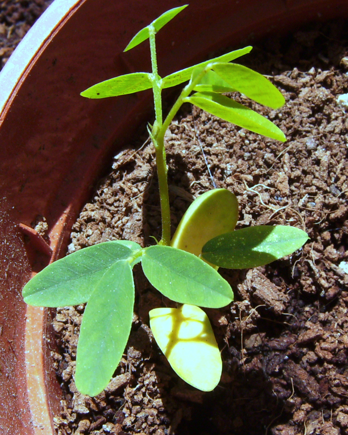 Tipuana tipu young plant, Barcelona, Catalonia